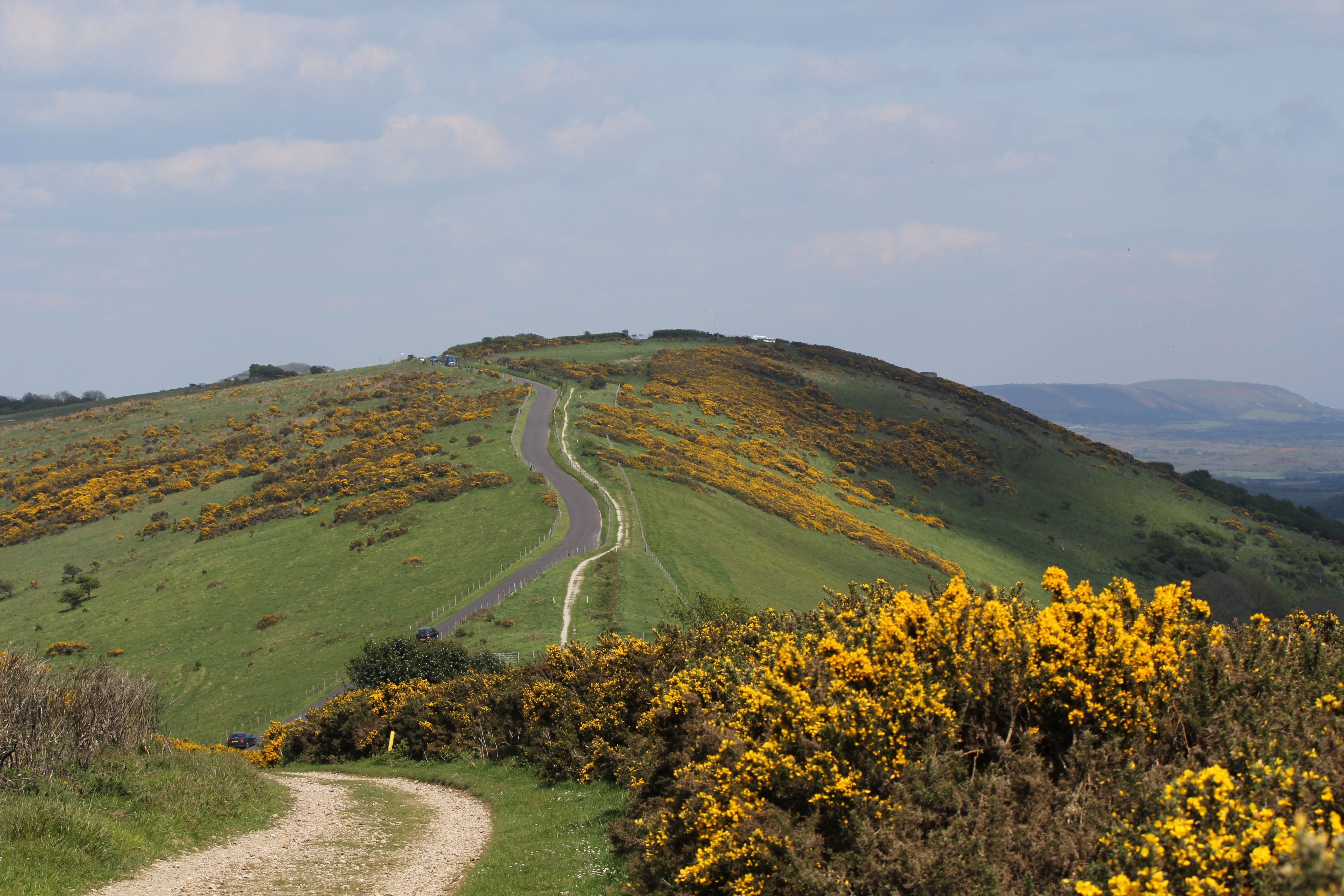 Povington Hill and gorse in bloom on the Purbeck Ridge, Dorset, seen from Whiteway Hill.